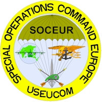 Seal of the SOCEUR